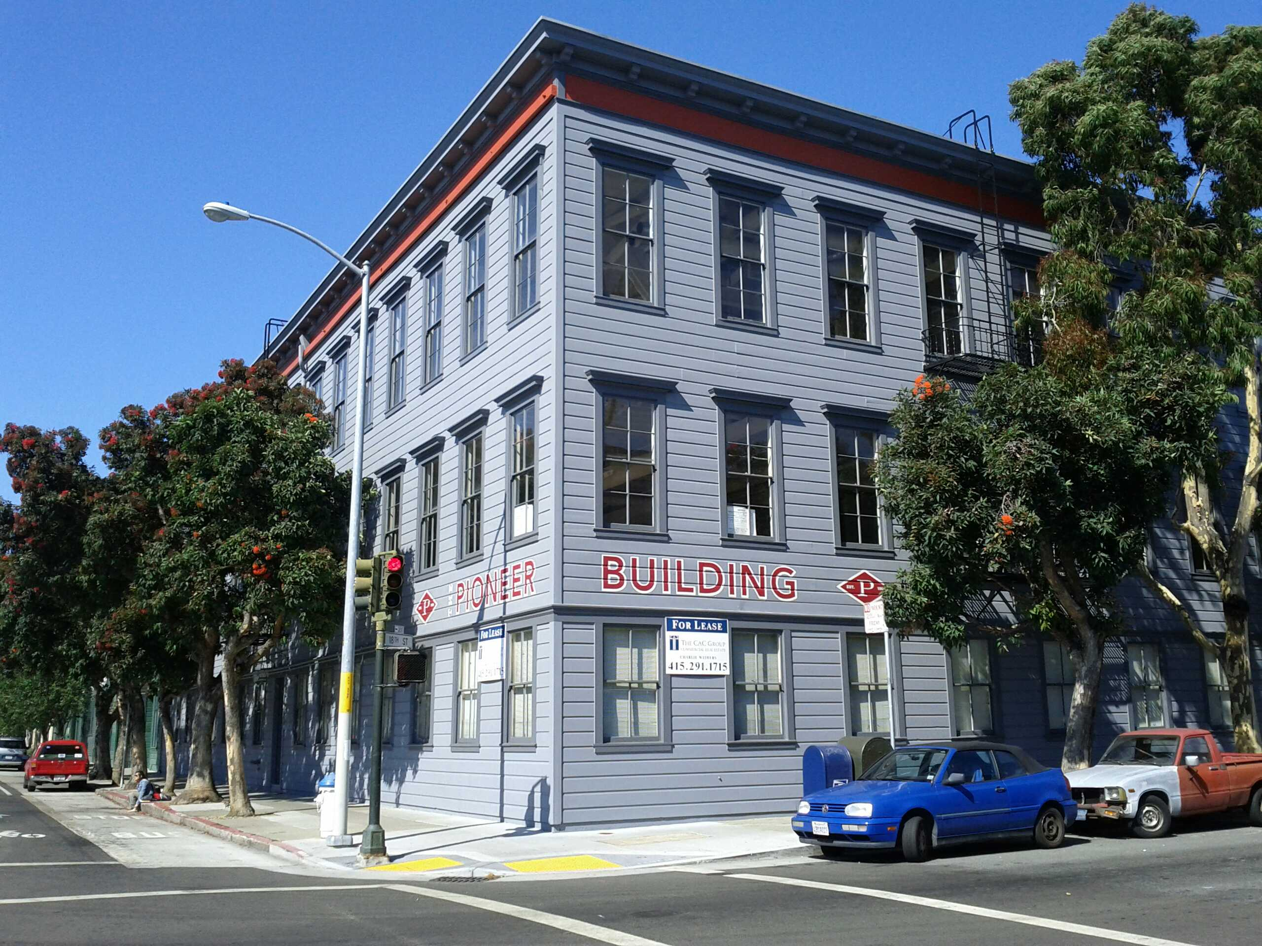 Pioneer Trunk Factory-C. A. Malm & Co. This photo was uploaded with Wiki Loves Monuments mobile 1.2.1 (Android).